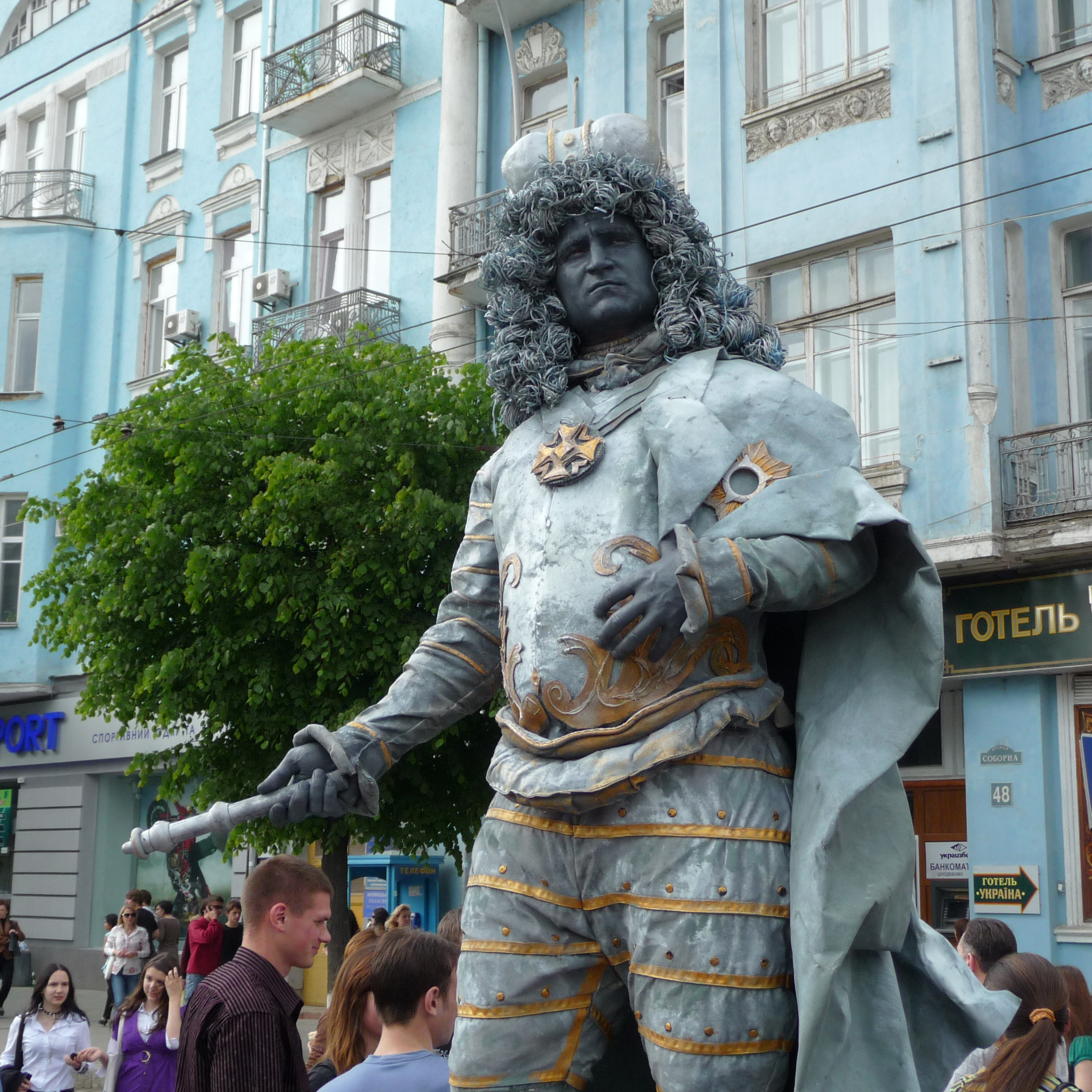 Living statues, performance art. Europe Day celebration in Ukraine, Vinnitsa